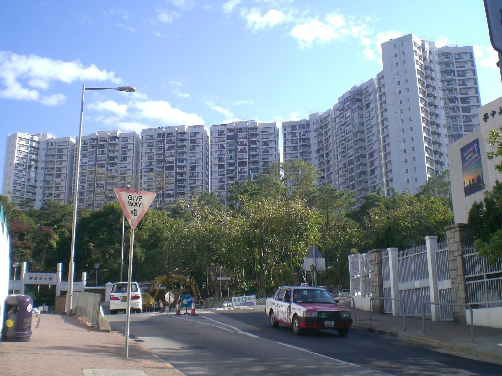 北角zh:寶馬山 雲景道遠眺 賽西湖大廈